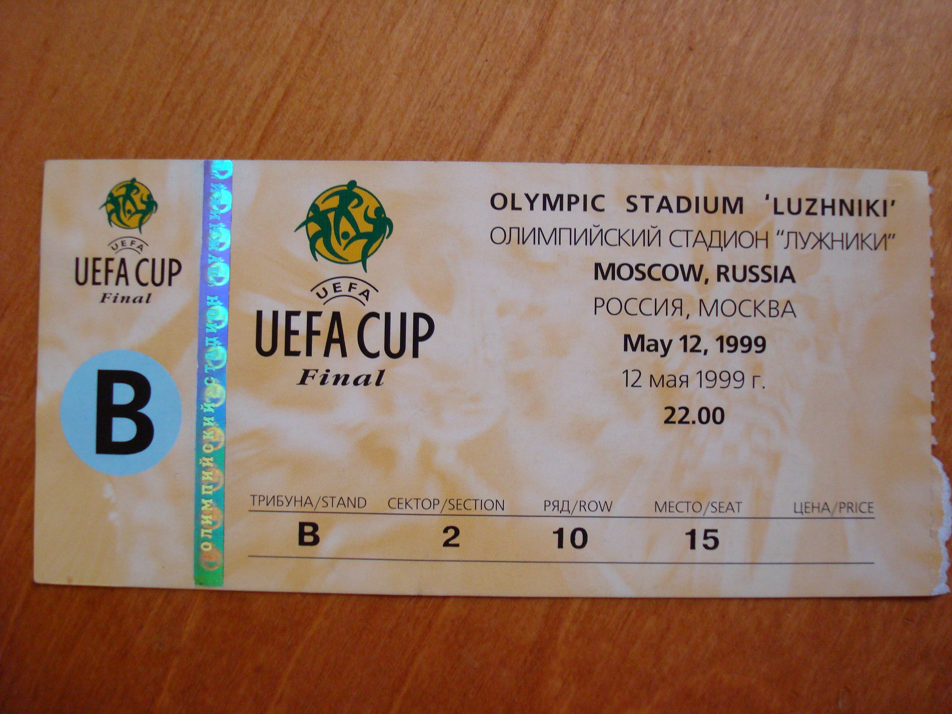 1999 UEFA Cup final. Ticket to Luzhniki stadium in Moscow. 12 May 1999